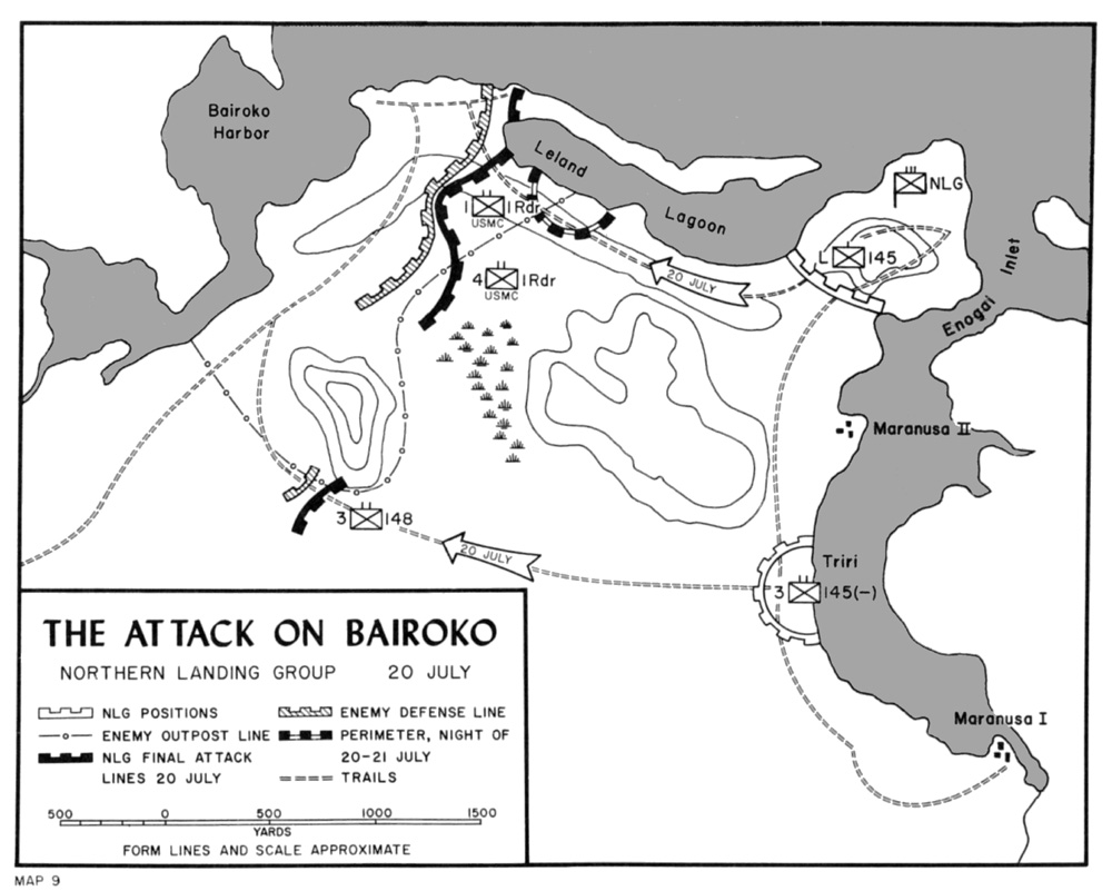 Map of the attack on Bairoko, New Georgia by US Marine Raiders 20 July, 1943.